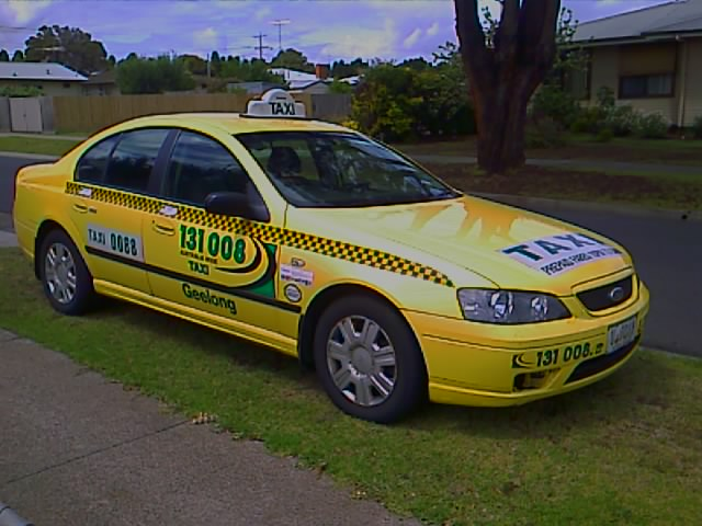 2005–2006 Ford Falcon (BF) XT sedan, Geelong Taxi Network, off-duty, U-0088. Photographed in Geelong, Victoria, Australia.